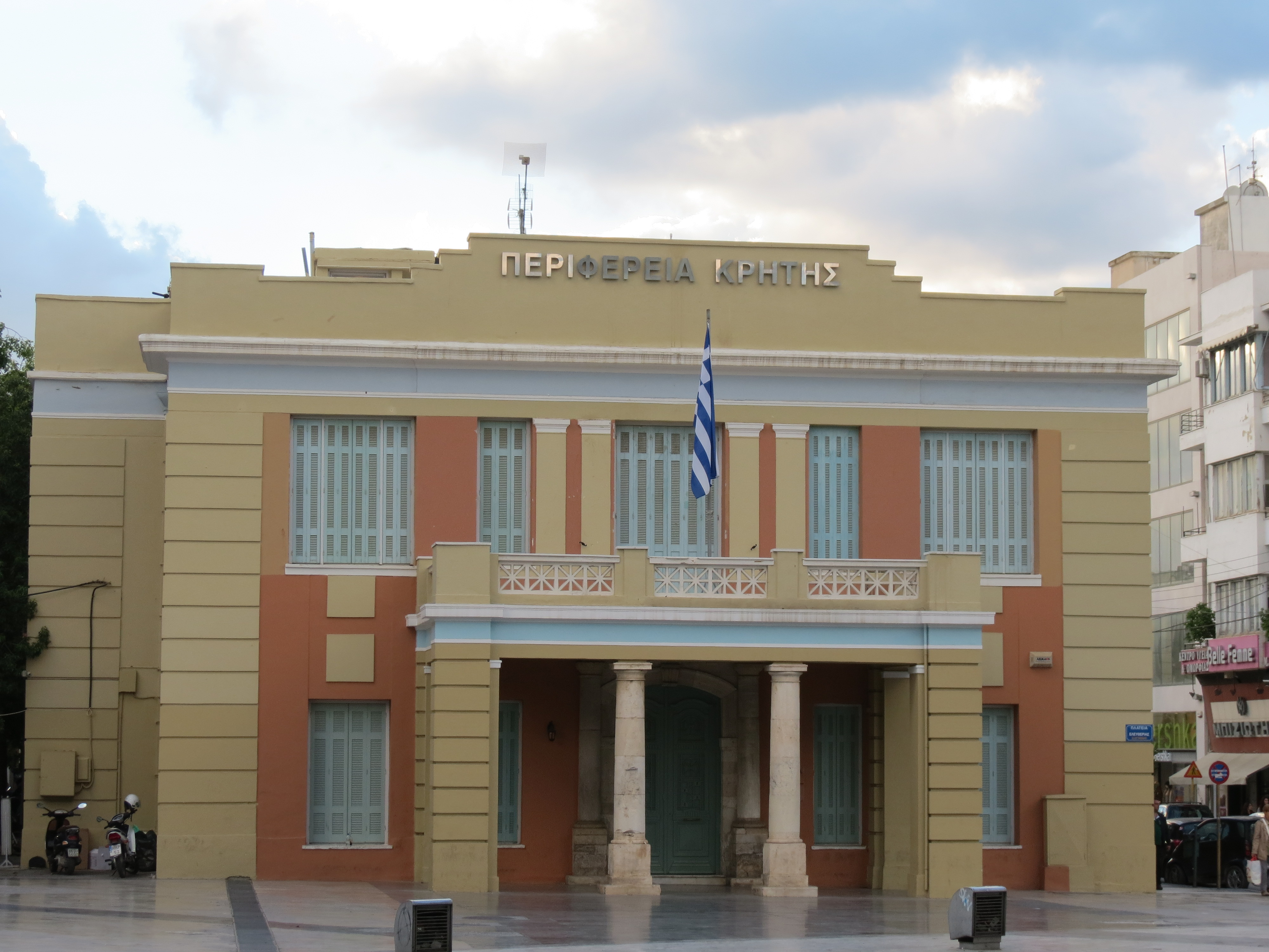 The offices of Region of Crete next to Eleftherias Square at the center of Herakleion